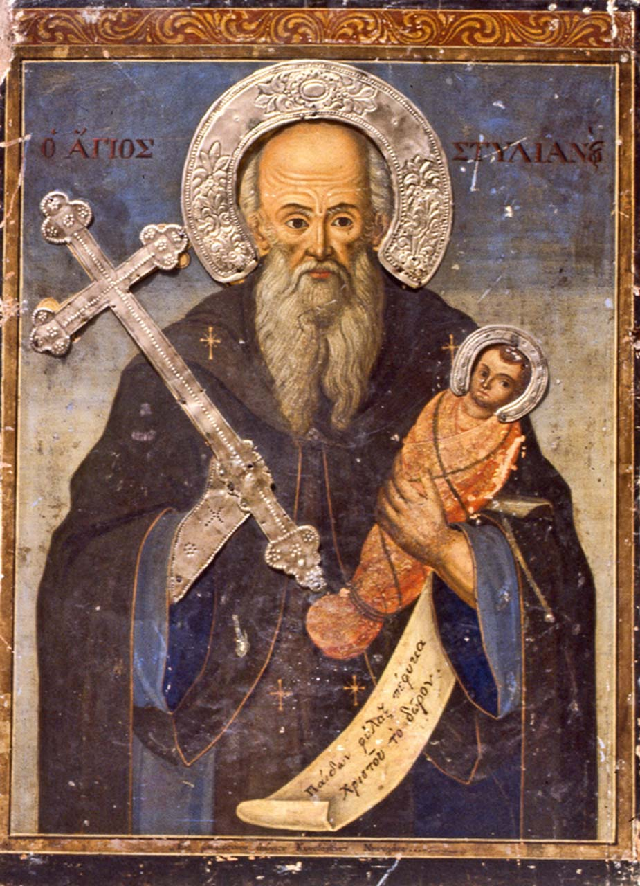 St. Stephen Arnea Church, St. Stylian Icon